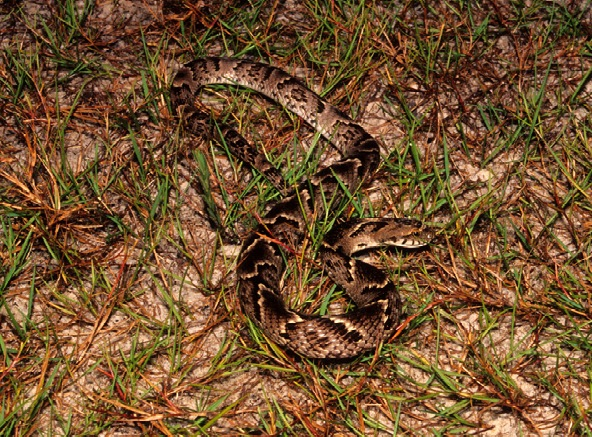 Xenodon merremii in Lençóis Maranhenses National Park, Maranhão State, Northeastern Brazil. Photo by J. P. Miranda.